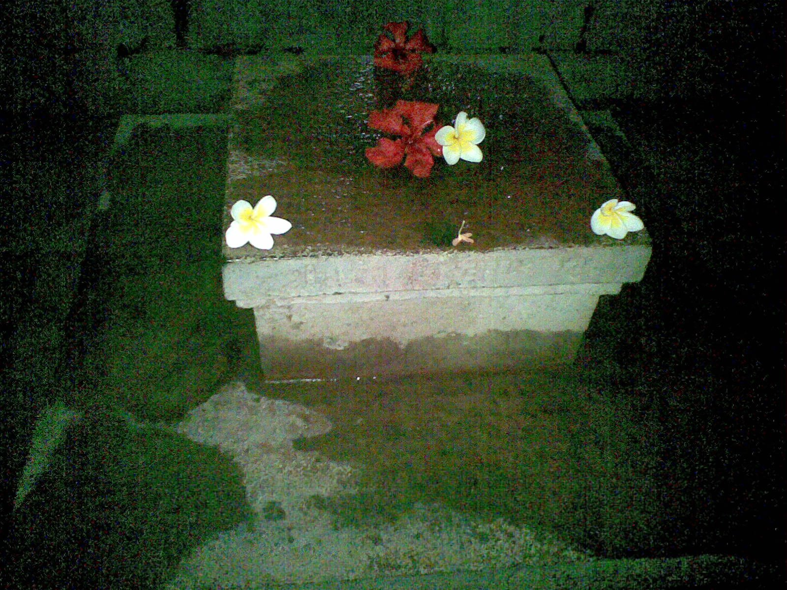 kanheri mathpati samaerthshishya shree vasudev swami samadhi